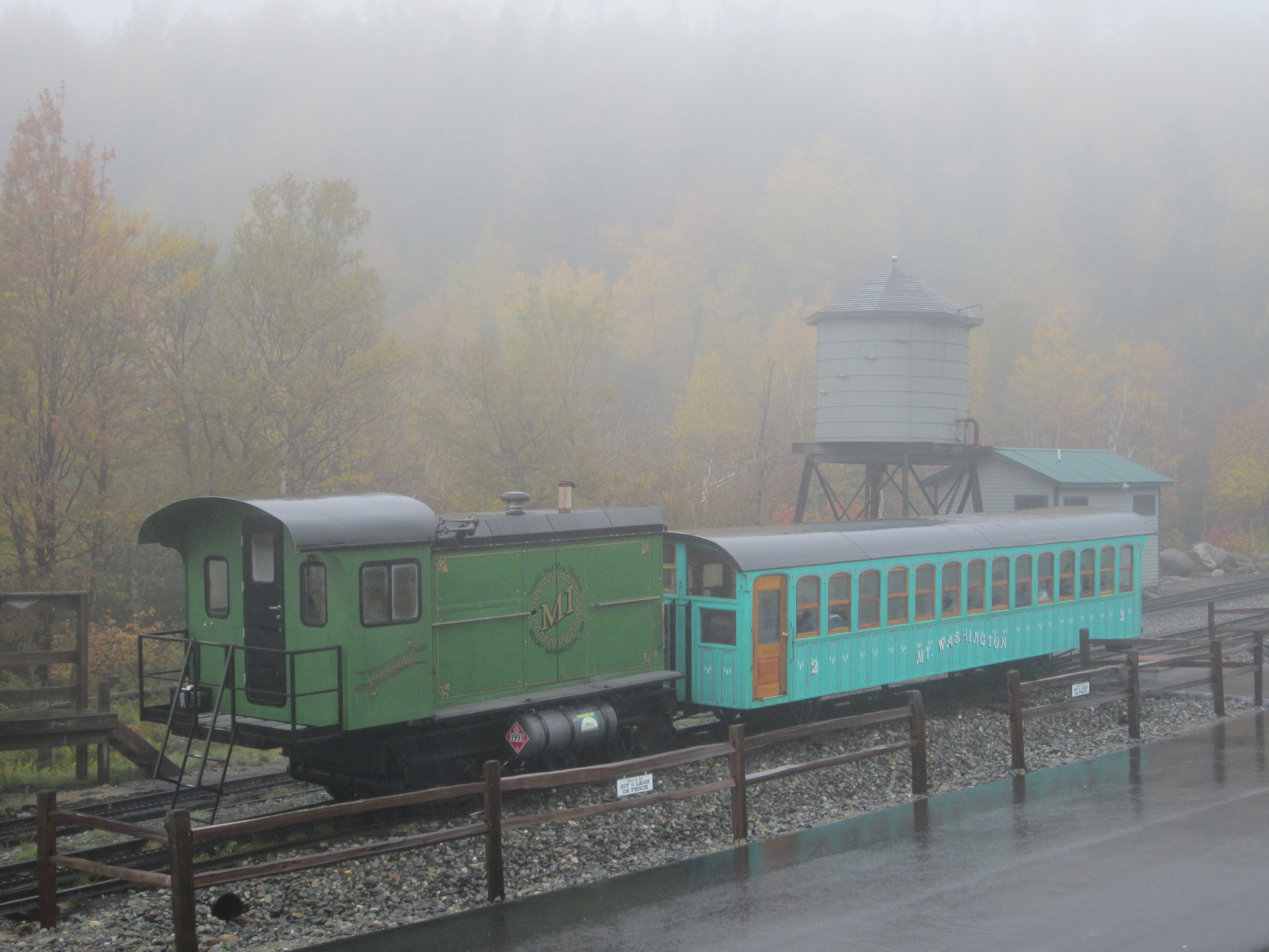 One of the cog locomotives ready to push a passenger car up Mt. Washington, New Hampshire on a foggy day October 2012